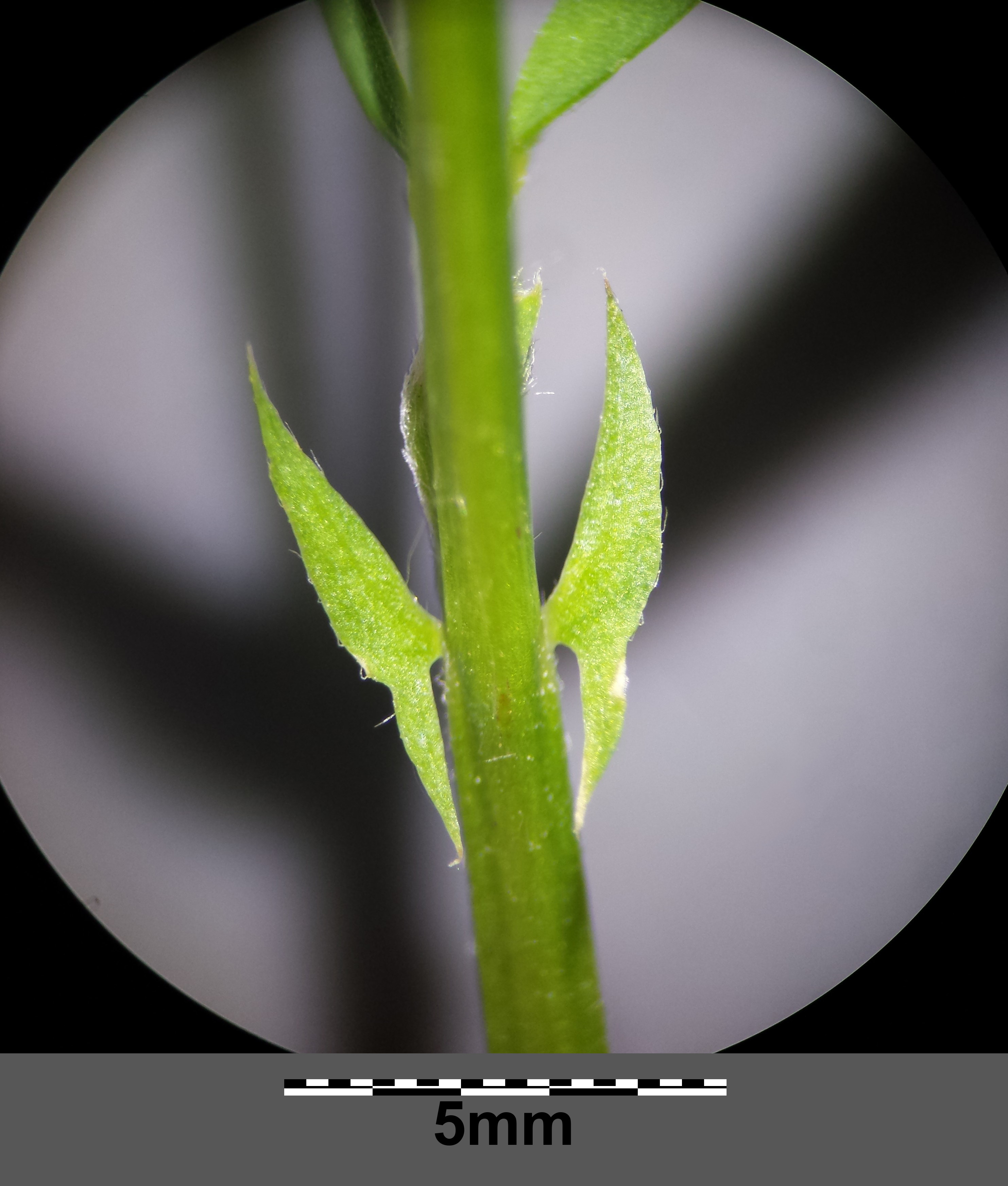 Stem with stipules Taxonym: Vicia tetrasperma ss Fischer et al. EfÖLS 2008 ISBN 978-3-85474-187-9 Location: between Stockerau and Spillern, district Korneuburg, Lower Austria - ca. 170 m a.s.l. Habitat: ruderal meadows